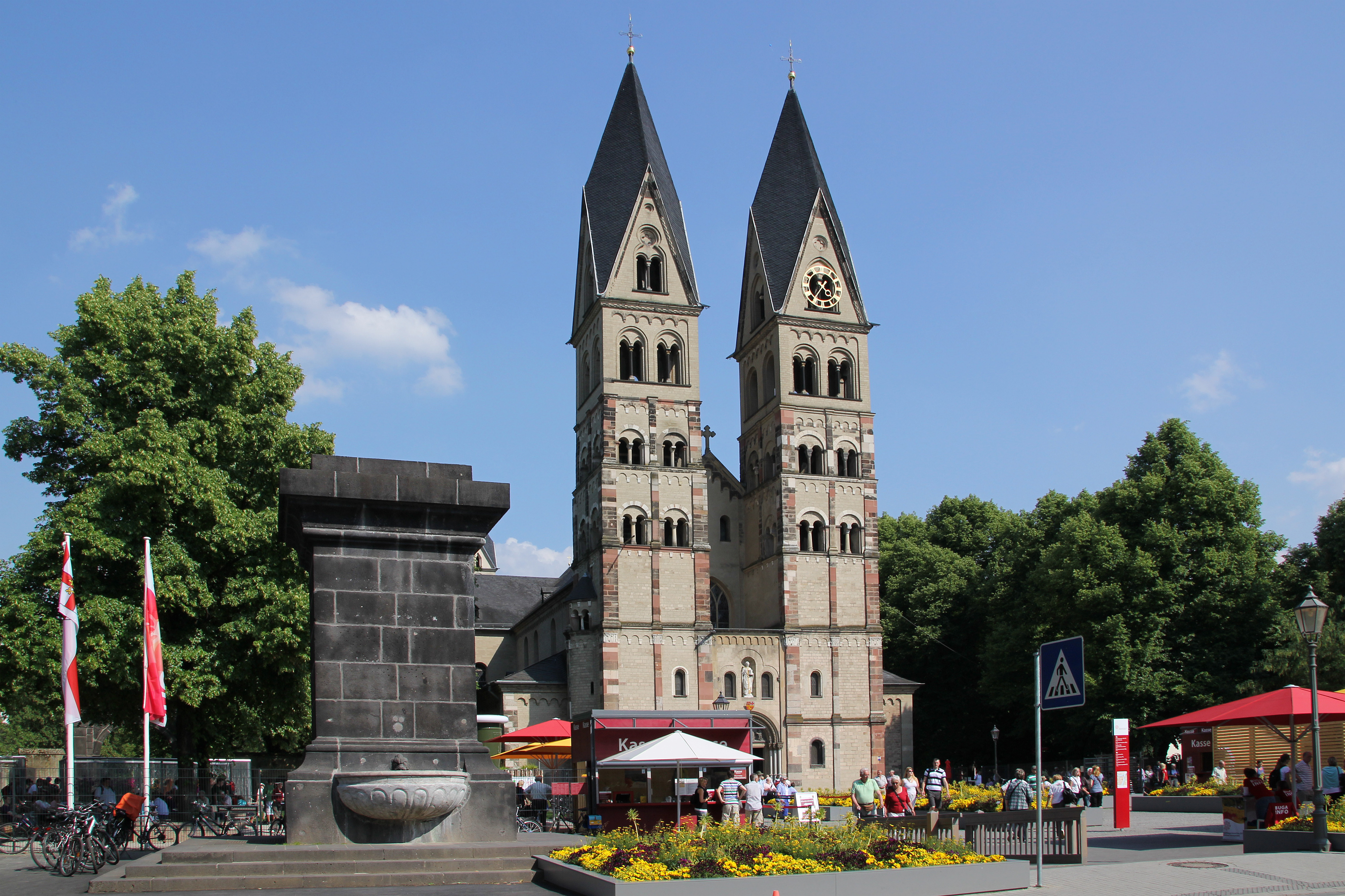 Basilica of St. Castor in Koblenz